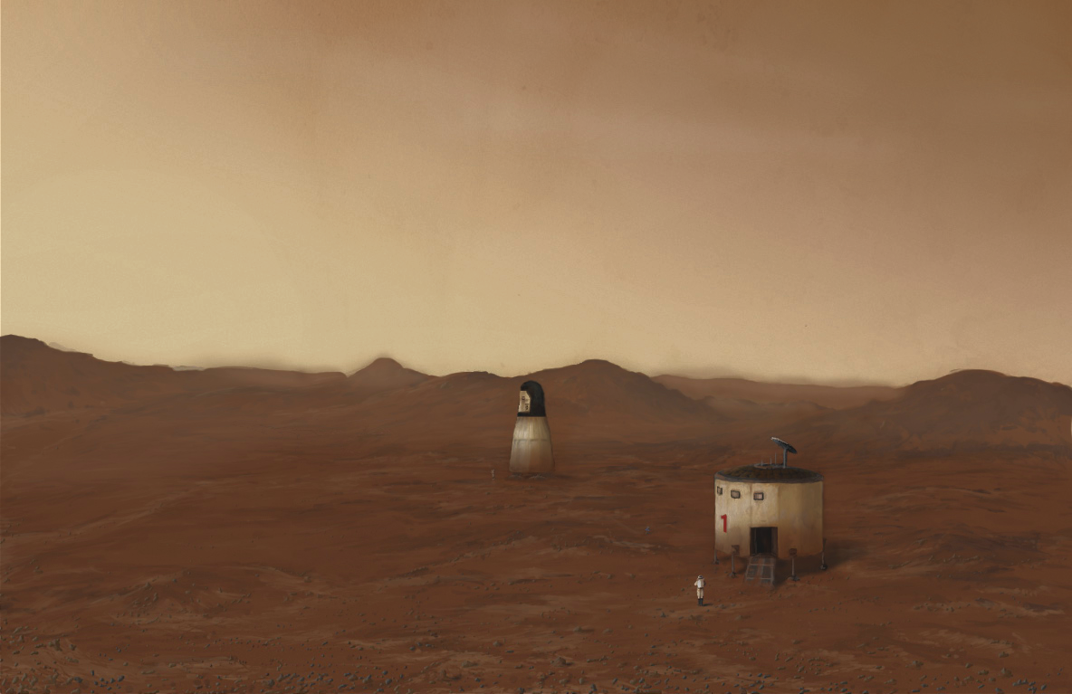 Mars Direct base artist impression.